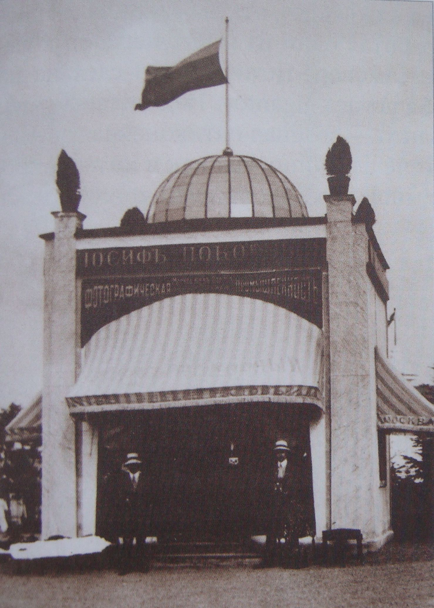 Pavilion of photo artist Pokorny at Odessa Art & Industry Exposition, 1910